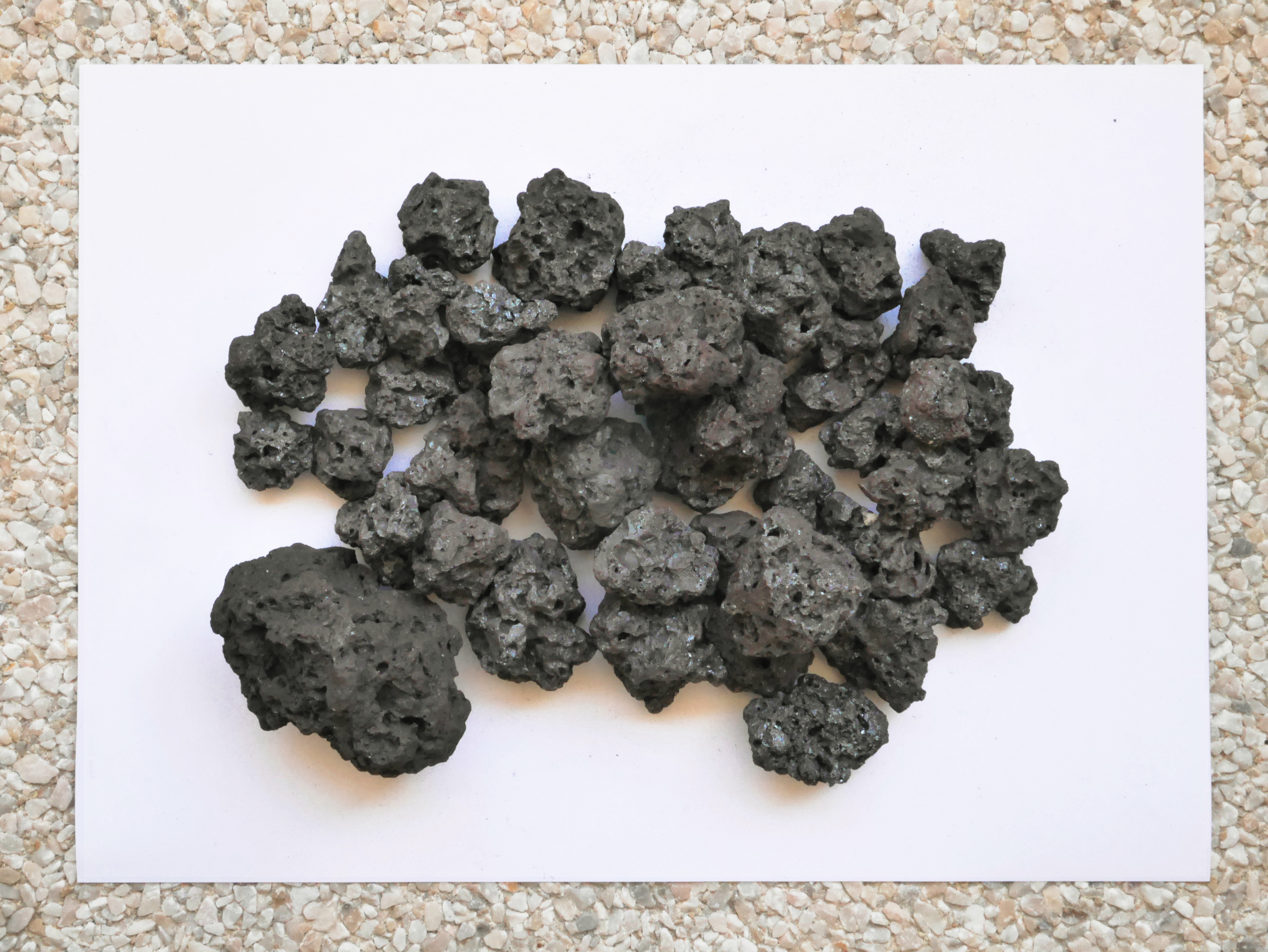 Sintered iron ore used in steel production, just before being charged in a blast furnace. This sinter was produced by the Dwight-Lloyd process and screened. The A4 sheet of paper gives the scale.